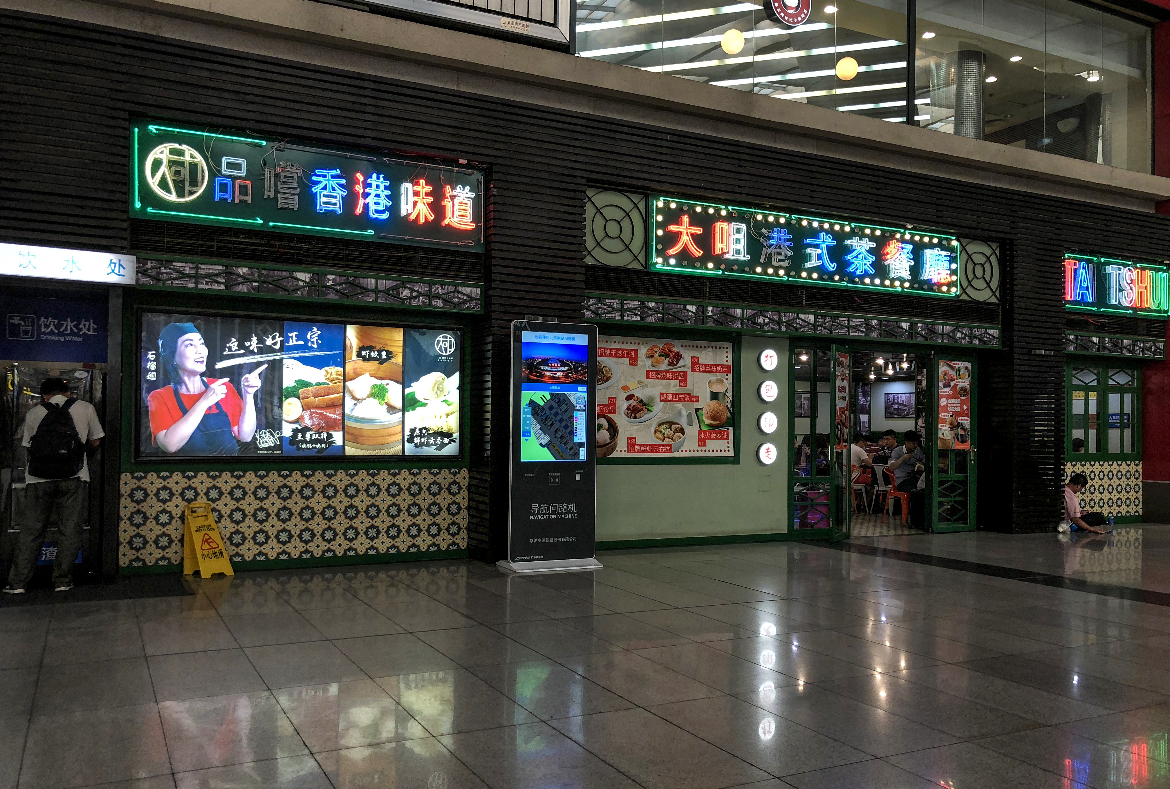 The name of this cha chaan teng just reminded me of Tai Kok Tsui. Something special on the departure floor...